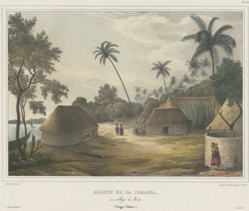 Creator Arnout, Jean Baptiste, 1788- Title Maison de Tamaha, au village de Moua, Tonga-Tabou [picture] / de Sainson pinx.; Arnout lith. 1830; fig. par V. Adam Call Number PIC Volume 577 #U1788 NK3340 Created/Published [Paris] : Tastu, [1833] Extent 1 print : lithograph, hand col. ; 21.8 x 31 cm. Physical Context PIC Volume 577 #U1788 NK3340-Maison de Tamaha, au village de Moua, Tonga-Tabou [picture] /